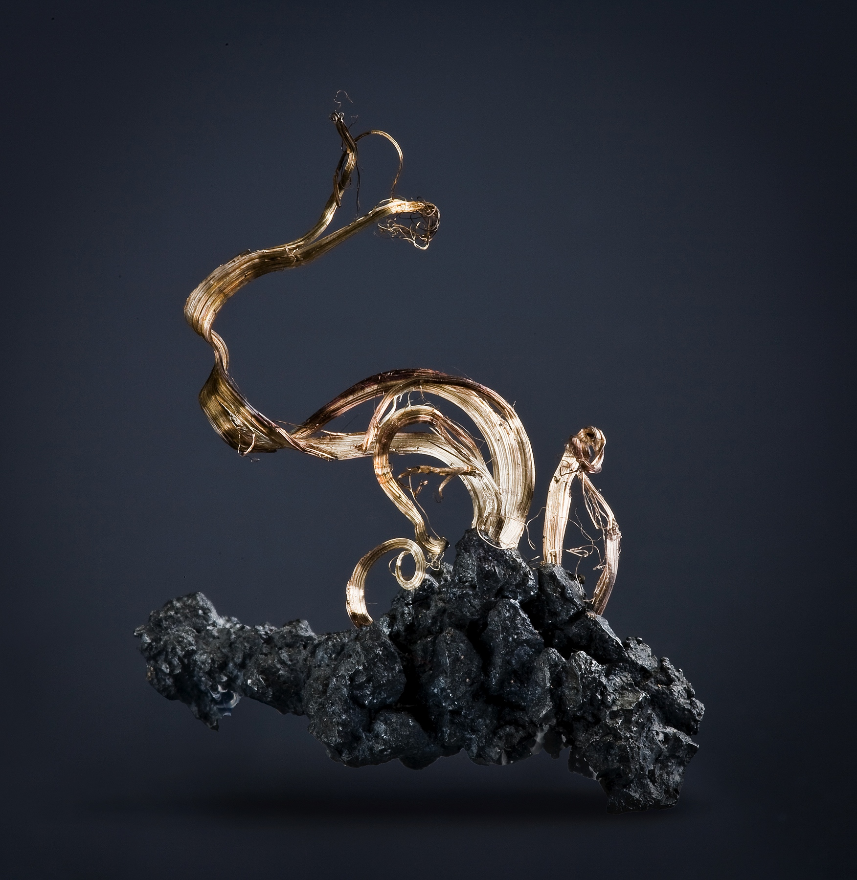 Acanthite, Silver Locality: Imiter Mine, Boumalne-Dadès, Ouarzazate Province, Souss-Massa-Draâ Region, Morocco (Locality at ) Size: miniature, 4.3 x 4.1 x 2.1 cm Silver on Acanthite Complexly turning, elegant wires with great lustre and twisty form, robust and yet bendable at the same time, look like they are shooting off this crystallized acanthite matrix. The complexity of the silver wires is actually more apparent in person - these are not "rounded" at all, and in fact the wires have long shallow grooves running from bottom to top. Superbly balanced, this is good from either side and is one of the finest miniatures for aesthetics, that I have seen in this material. From a 2008 find at the famous Imiter Mine, this is a stashed specimen picked from the original lots that came out at the time.